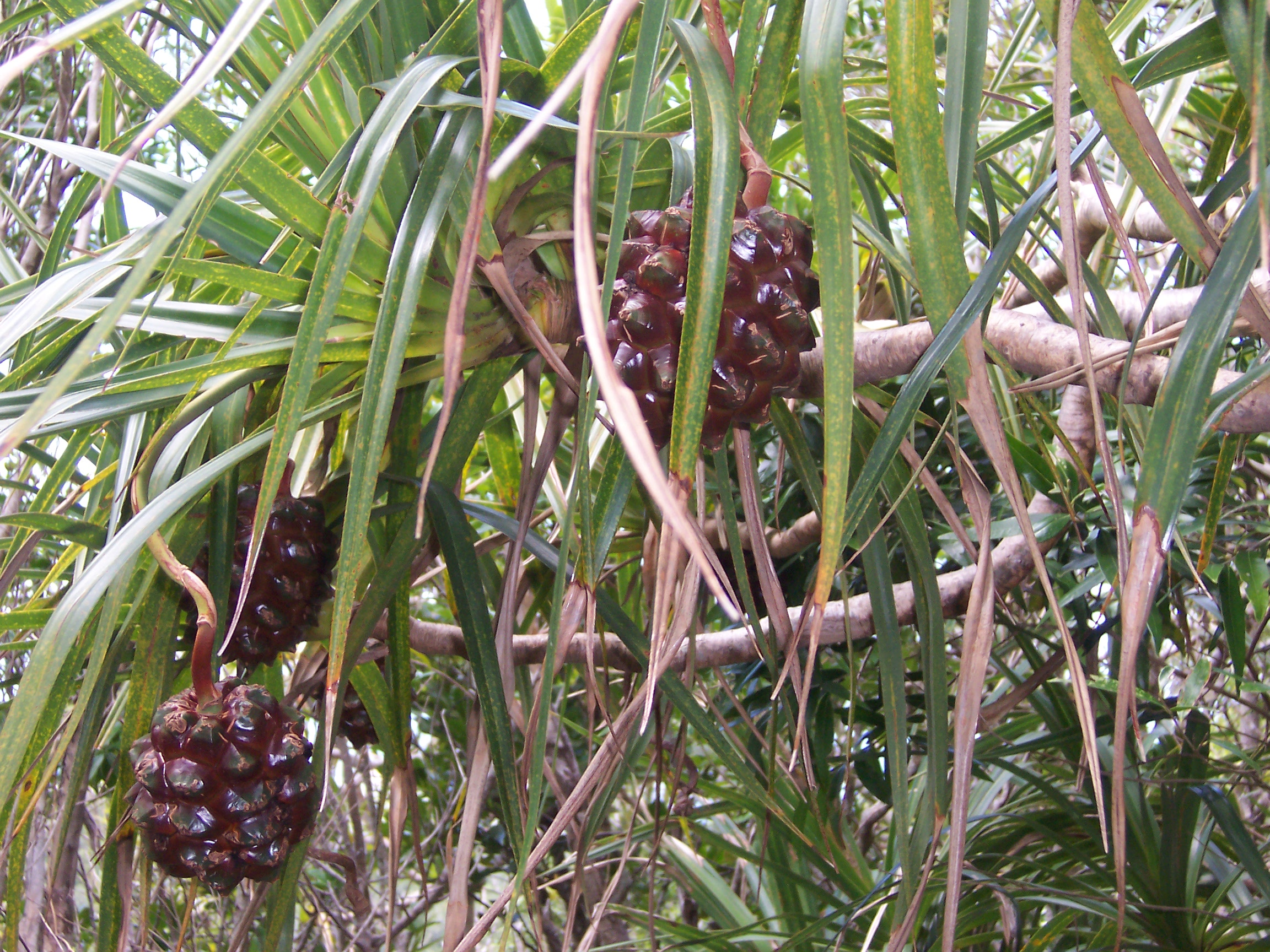 Pandanus sylvestris, endemic species of Réunion island